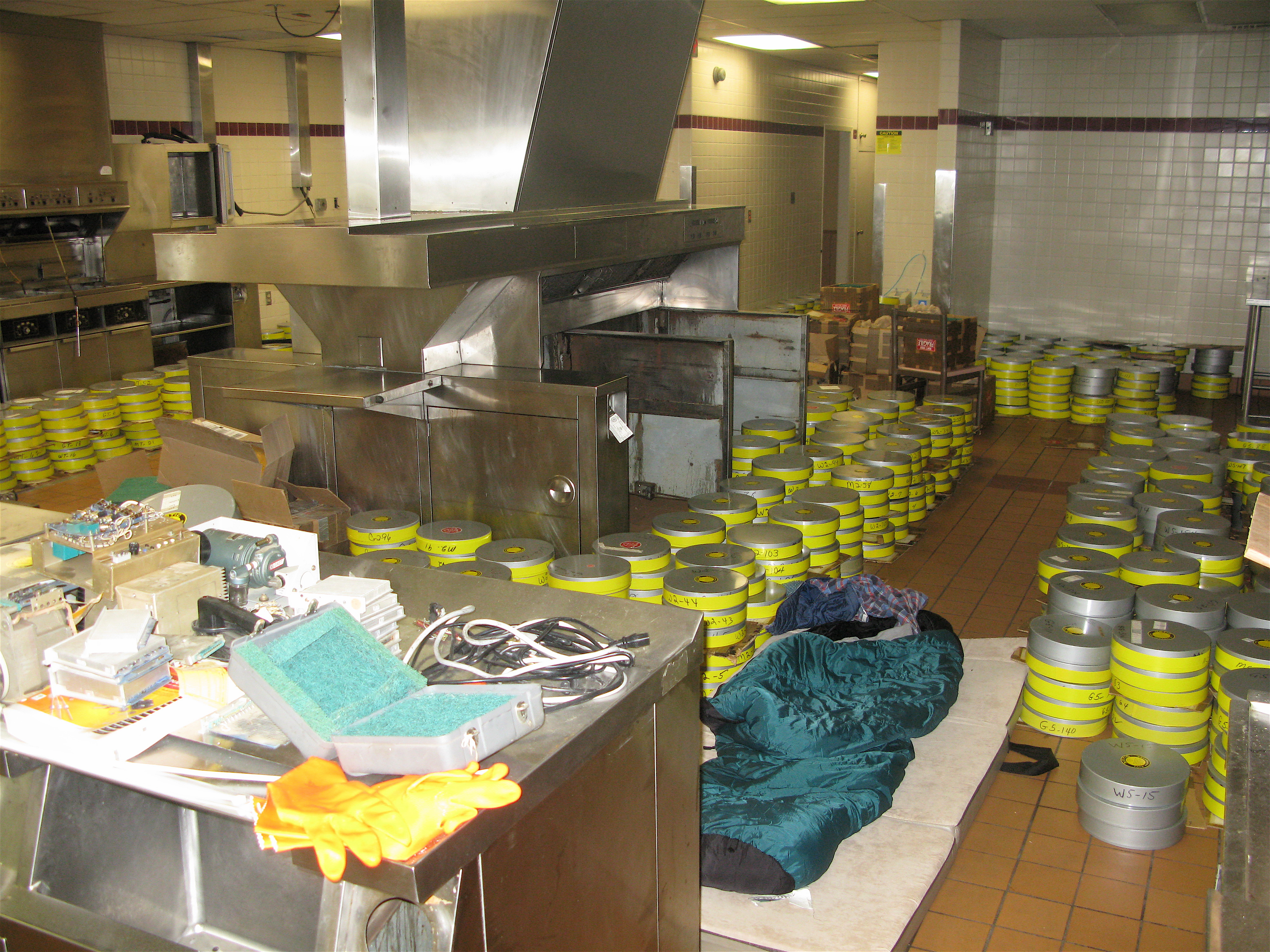 Behind the counter of an abandoned McDonalds lie 48,000 lbs of 70mm tape... the only copy of extremely high-resolution images of the moon. These tapes were recorded 40 years ago by Lunar Orbiter 1 to map the lunar surface to plan landing spots for Apollo 11 onward. They have never been seen by the public because at the time, they were classified as they reveal the extreme precision of our spy satellites. Instead, all we have ever seen are the grainy photo-of-a-photo images that were released to the public. The spacecraft did not ship this film back to Earth. Instead, they developed the film on the Lunar Orbiter and then raster scanned the negatives with a 5 micron spot (200 lines/millimeter resolution) and beamed the data back to Earth using yet-to-be-patented-by-others lossless analog compression. Three ground stations on Earth (one was in Madrid) recorded the transmissions on these magnetic tapes. Recovering the data has proven to be very difficult, requiring technological archeology. The only working version of the Ampex tape player ($300K when new) was discovered in a chicken coop and restored with the help of the original designer. There is only one person on Earth who still refurbishes these tape heads, and he is retiring this year. The skills to read this data archive are on the cusp of disappearing forever. Some of the applications of this project, beyond accessing the best images of the moon ever taken, are to look for new landing sites for the new Google Lunar X-Prize robo-landers, and to compare the new craters on the moon today to 40 years ago, a measure of micrometeorite flux and risk to future lunar operations.